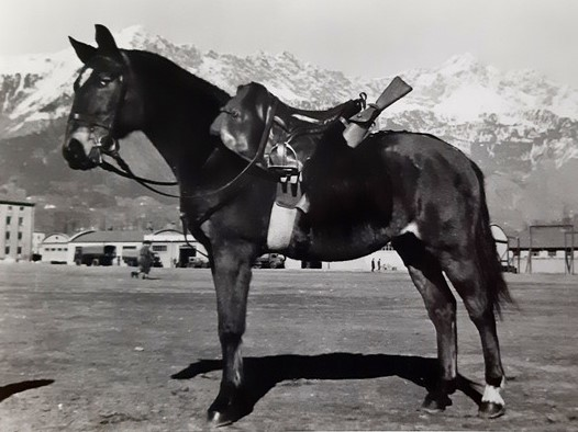 "Albino" was the name of this horse who lived 1932 to 1960 in Italy. Followed the Savoy Cavalery during World War II. Then, after some time on a farm, "Albino" was bought by captain Francesco Saverio De Leone and met the donkey "Mariolino". They died within three days of each other. "Albino" was embalmed and on display in museum in Grosseto, Toscana, belonging to the Savoy Cavalleria[1]